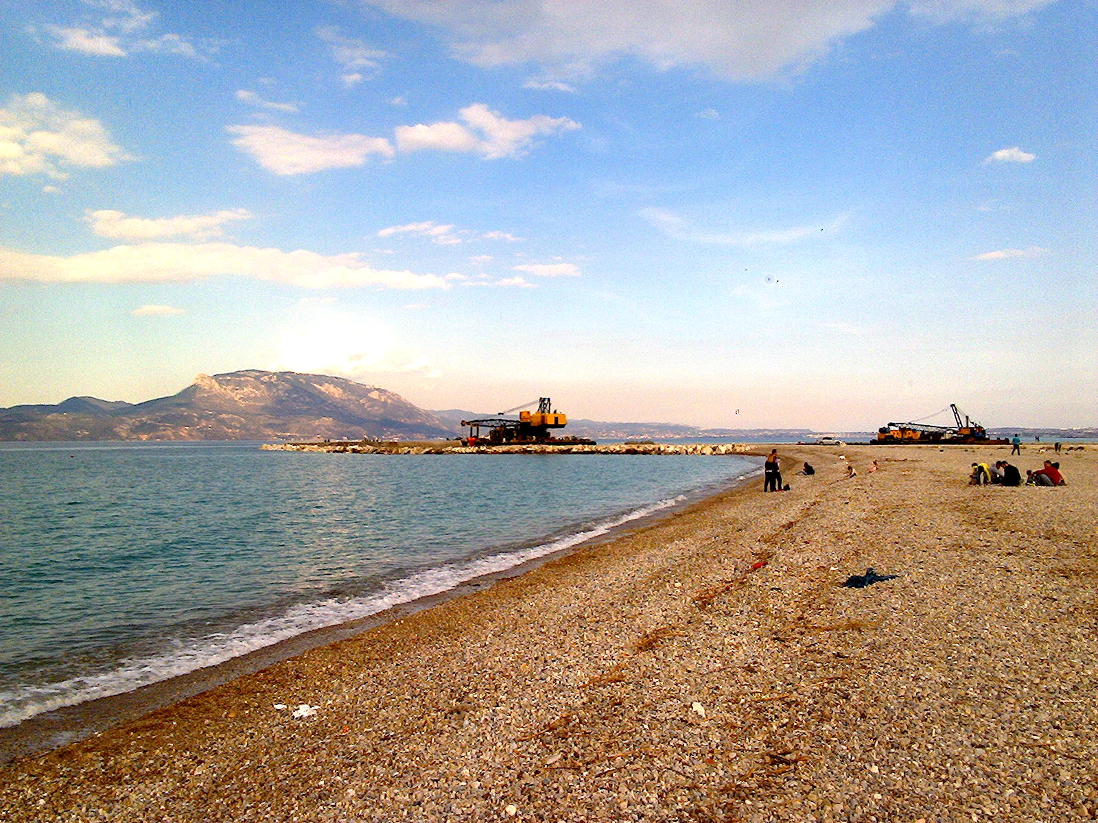 Vrahati's seashore and Corinthian Gulf.